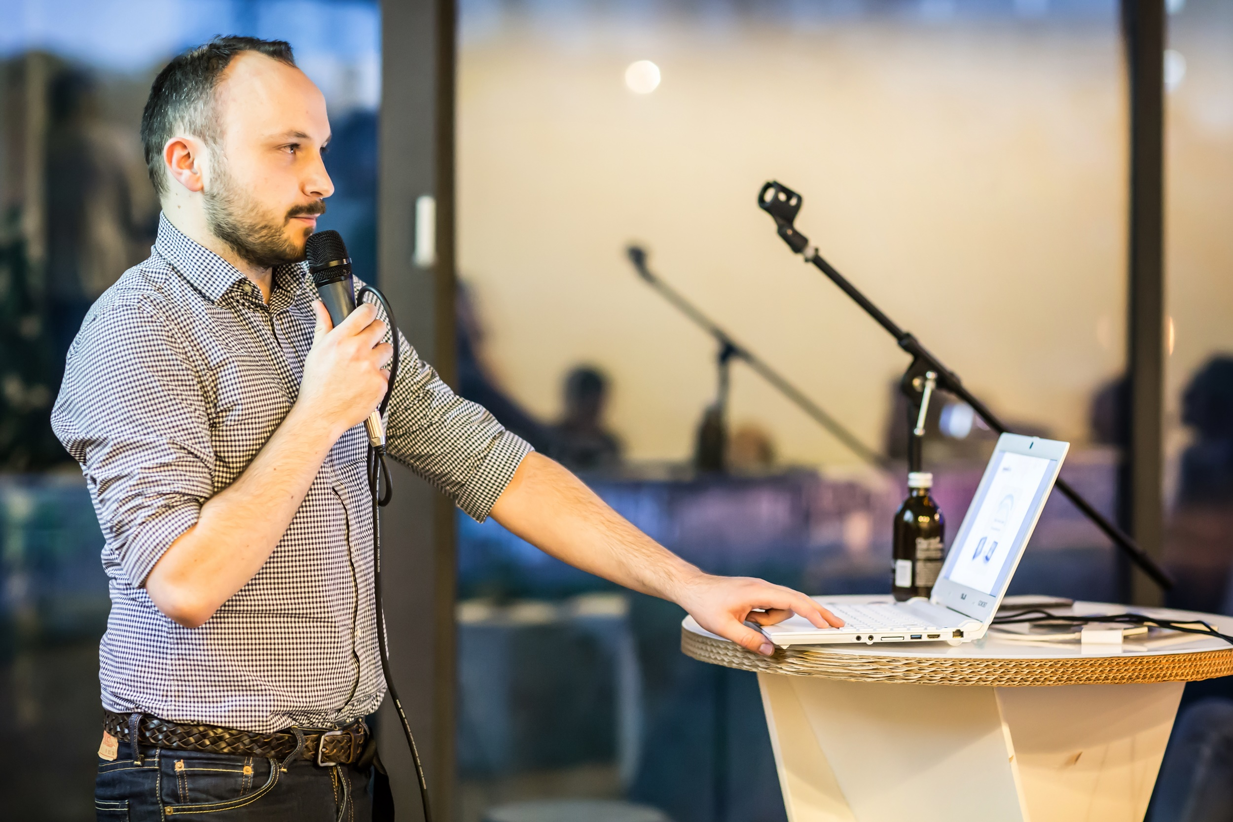 Marcus Engert von Detektor.fm (31.03.2017 | by Anne Schwerin, CC BY 4.0)